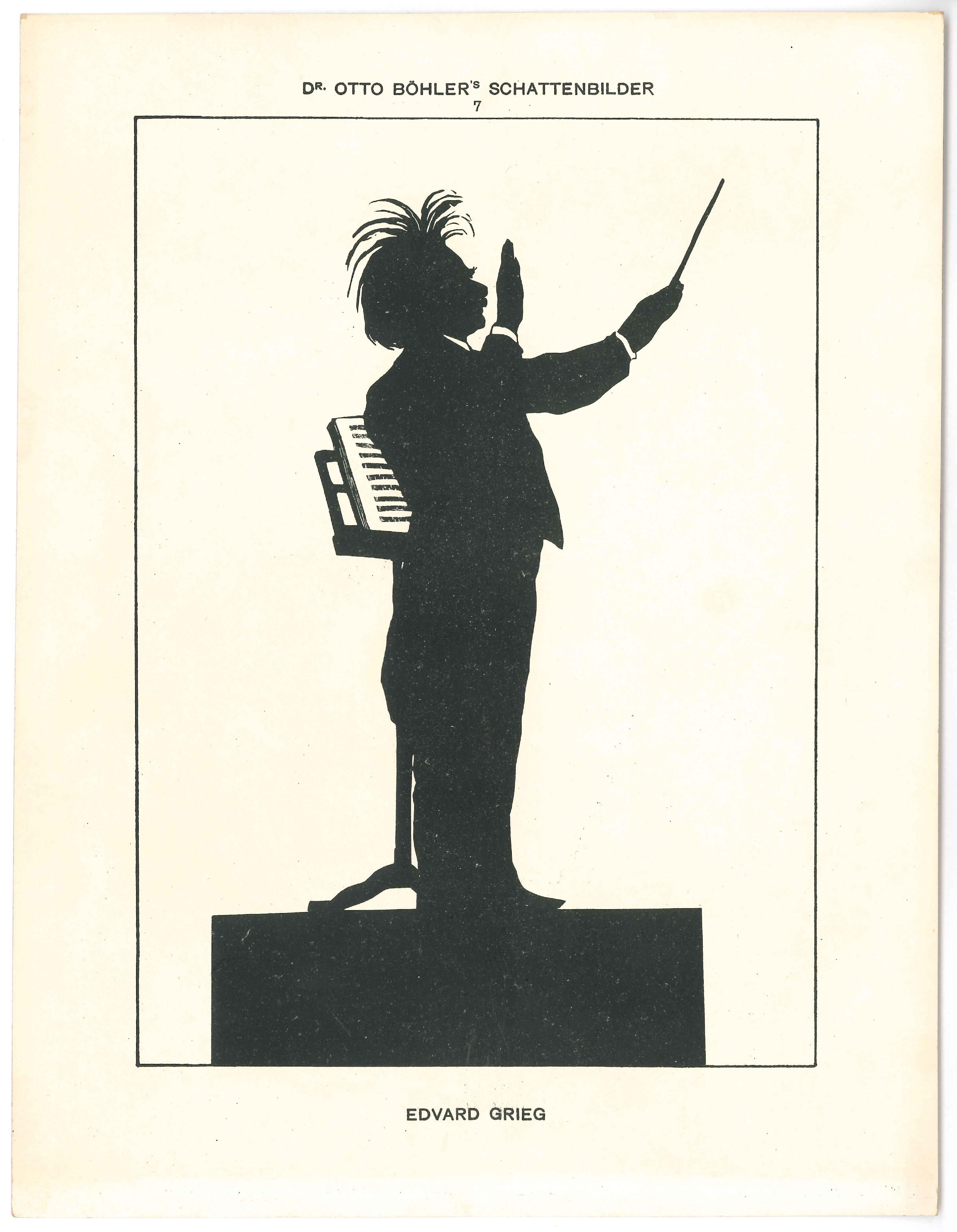 Edvard Grieg, silhouette 20 x 26 cm; photo of Böhler´s silhouette printed on thick card